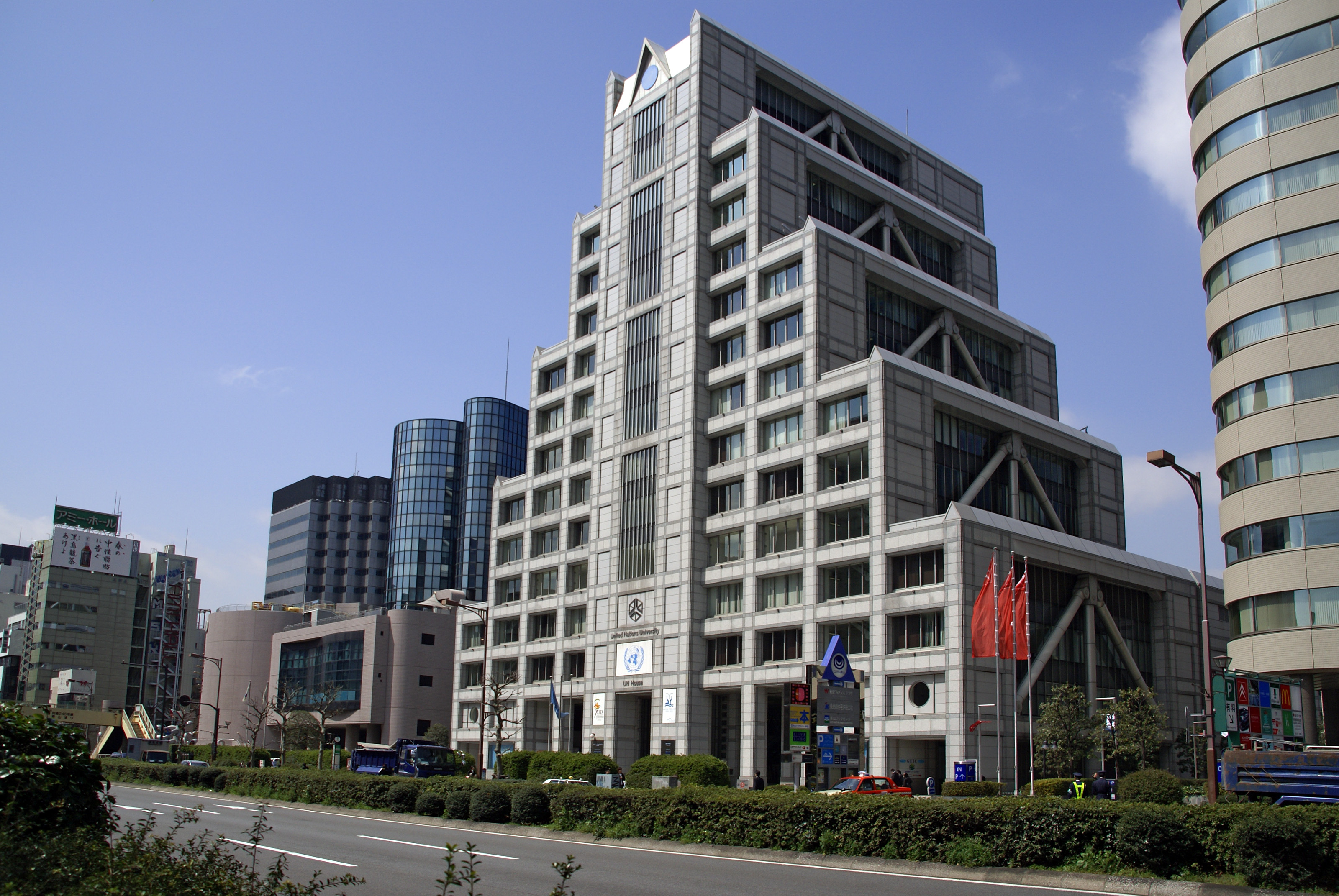 United Nations University in Shibuya-ku, Tokyo, Japan